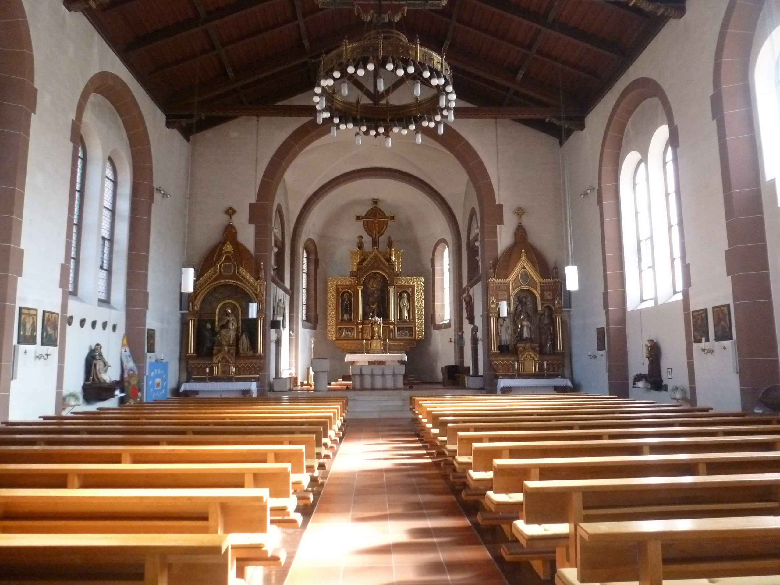 St. Antonius in Schuttertal, Ortenaukreis, Baden-Württemberg, Germany, interior viewed in the direction to altars (east)